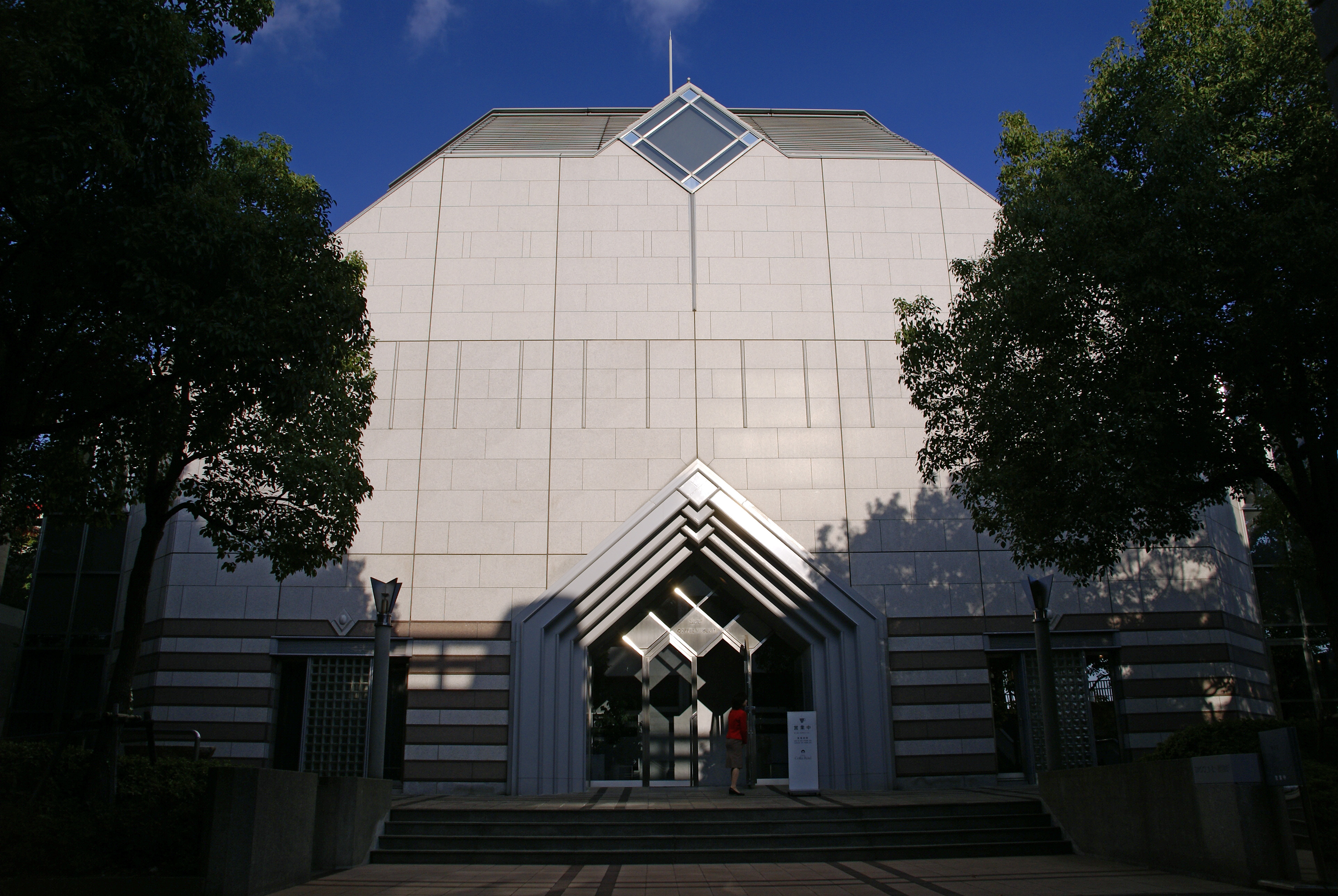 UCC Coffee Museum in Kobe, Hyogo prefecture, Japan